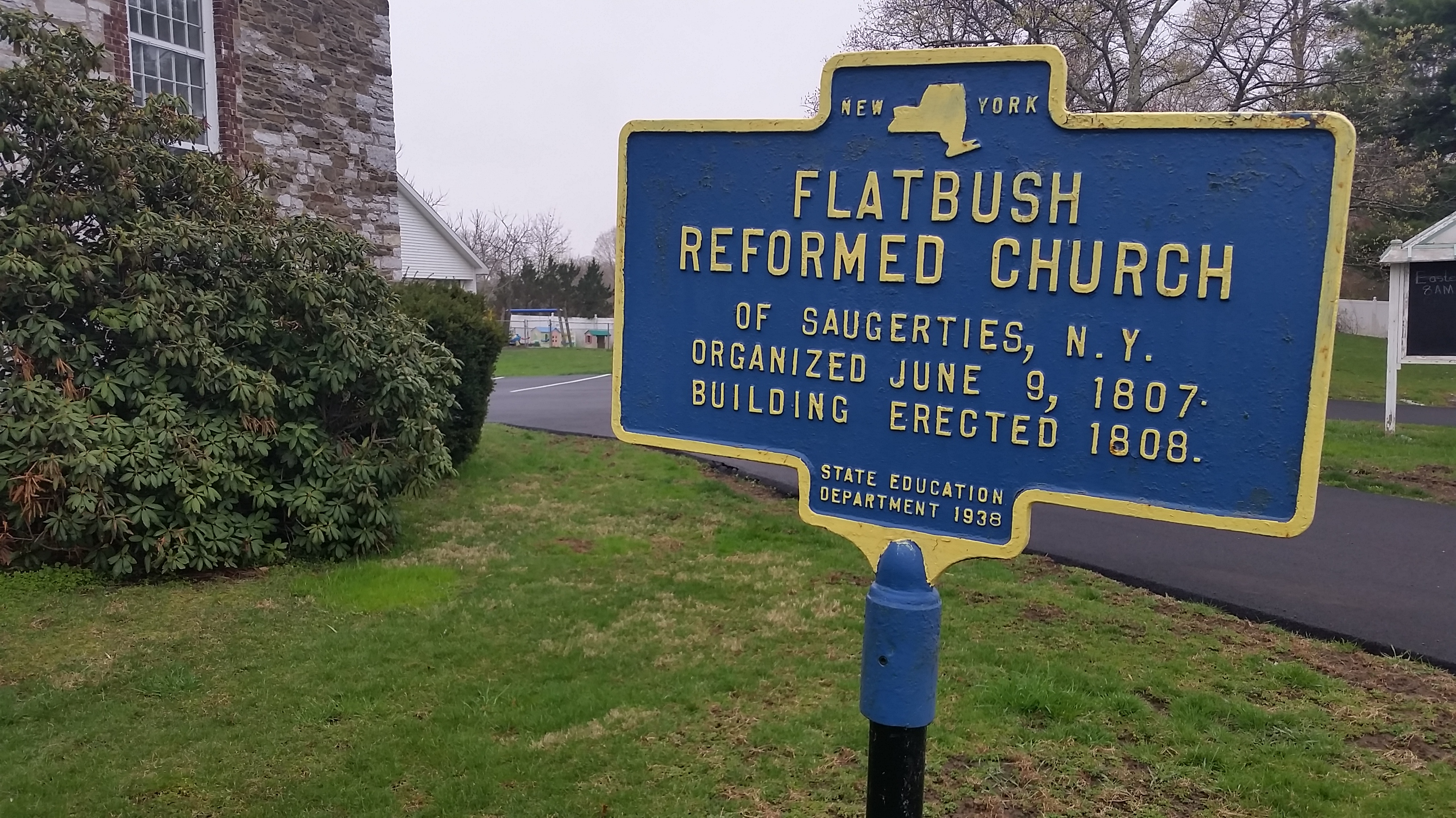 New York State historical marker for the Flatbush Reformed Church of Saugerties. NY.